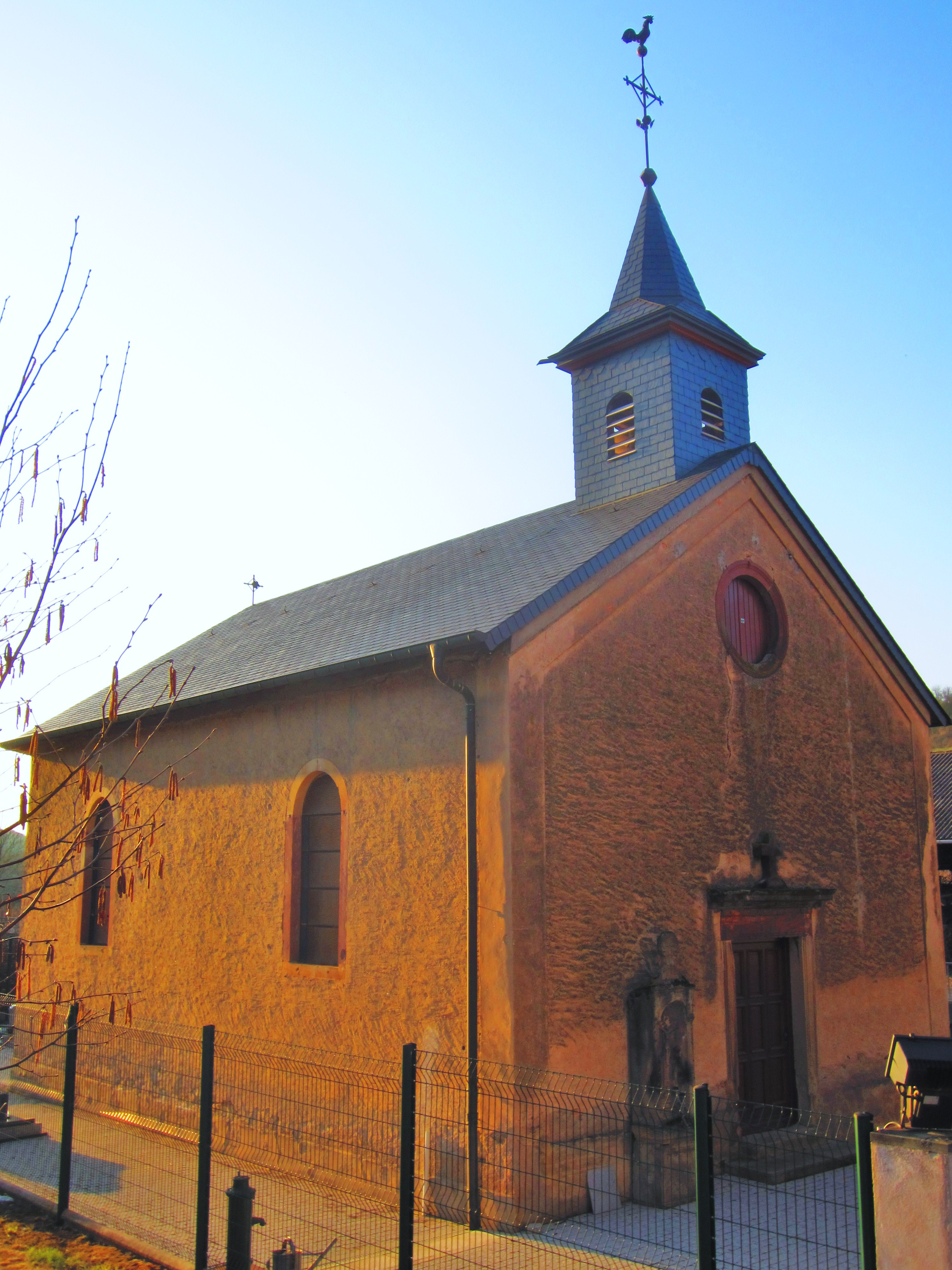 Kitzing Merschweiller chapel